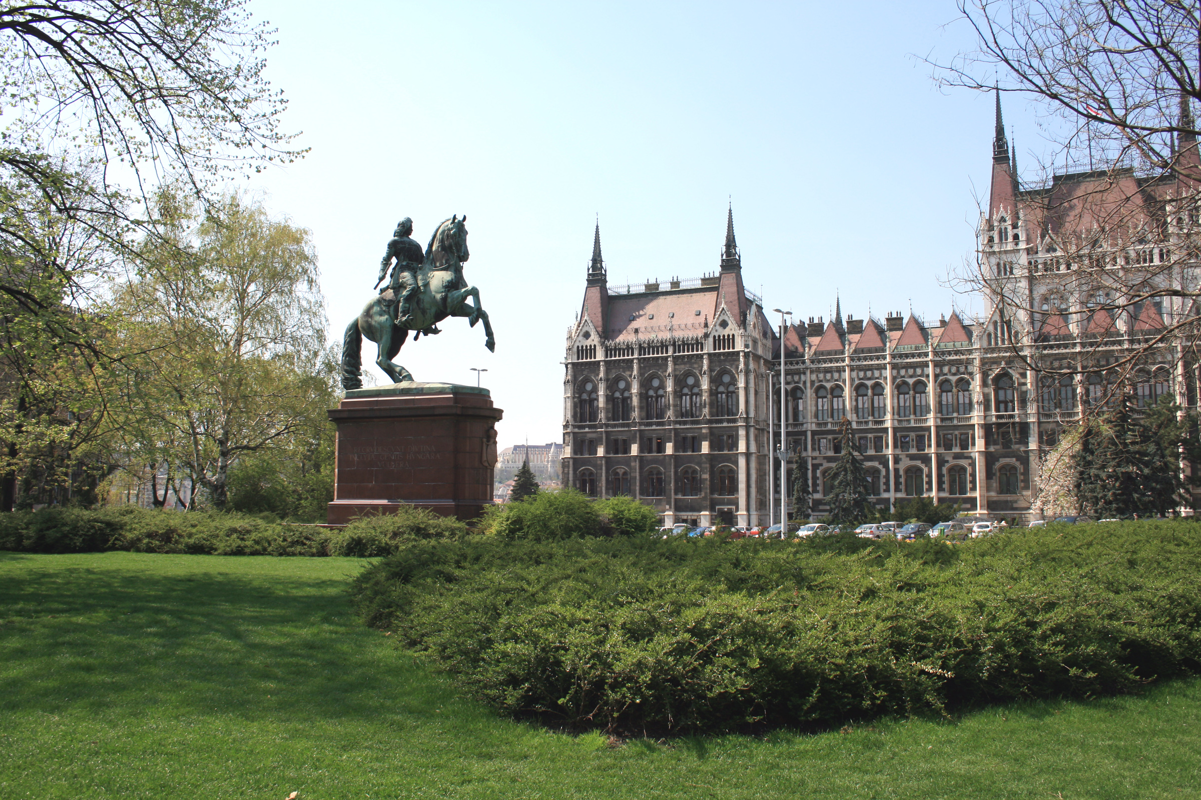 View on front of Parliament of Hungary and the statue, Budapest, Hungary